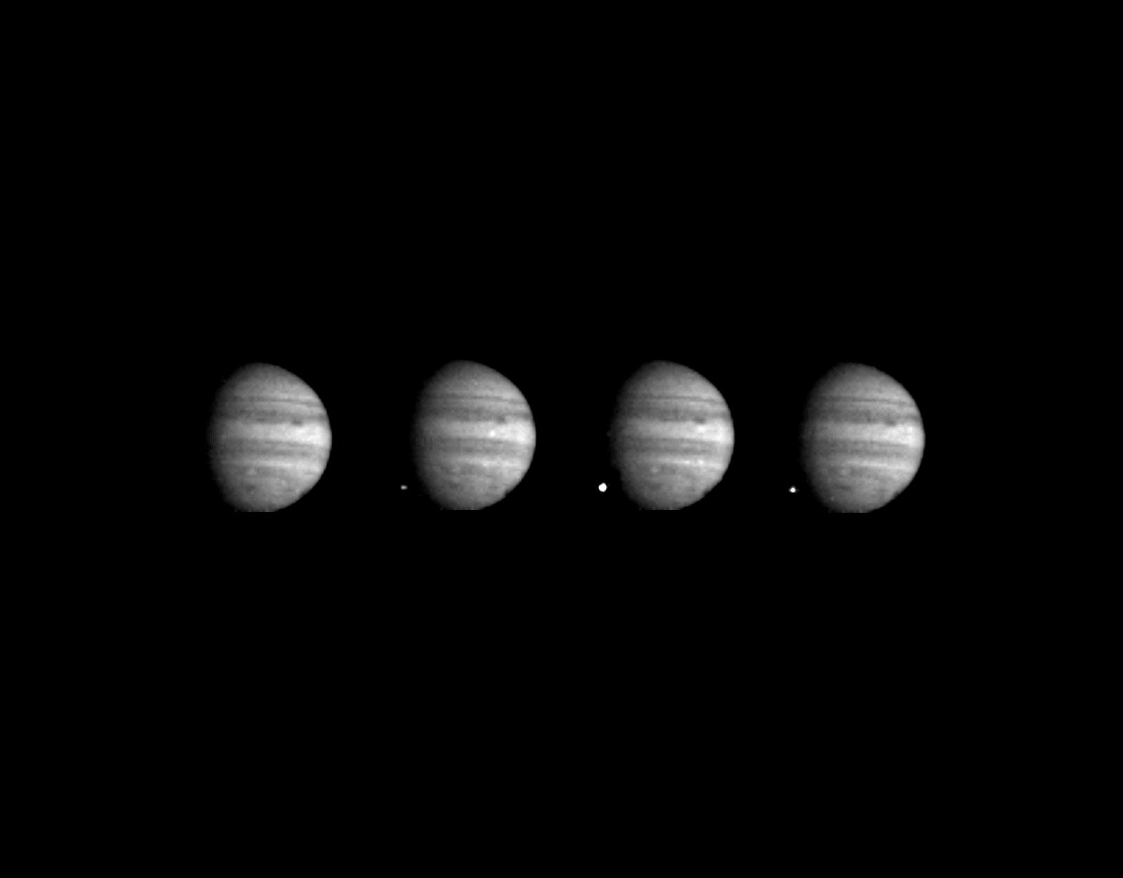 The black-and-white image of the collision of comet fragment W of comet Shoemaker-Levy 9 consists of four frames taken over a 7-second period. It shows the beginning, brightening and fading of a bright point about 44 degrees south latitude on the far side of Jupiter from the Earth. The four frames were obtained on July 22, 1994, at a distance of 238 million kilometers (148 million miles) from Jupiter.